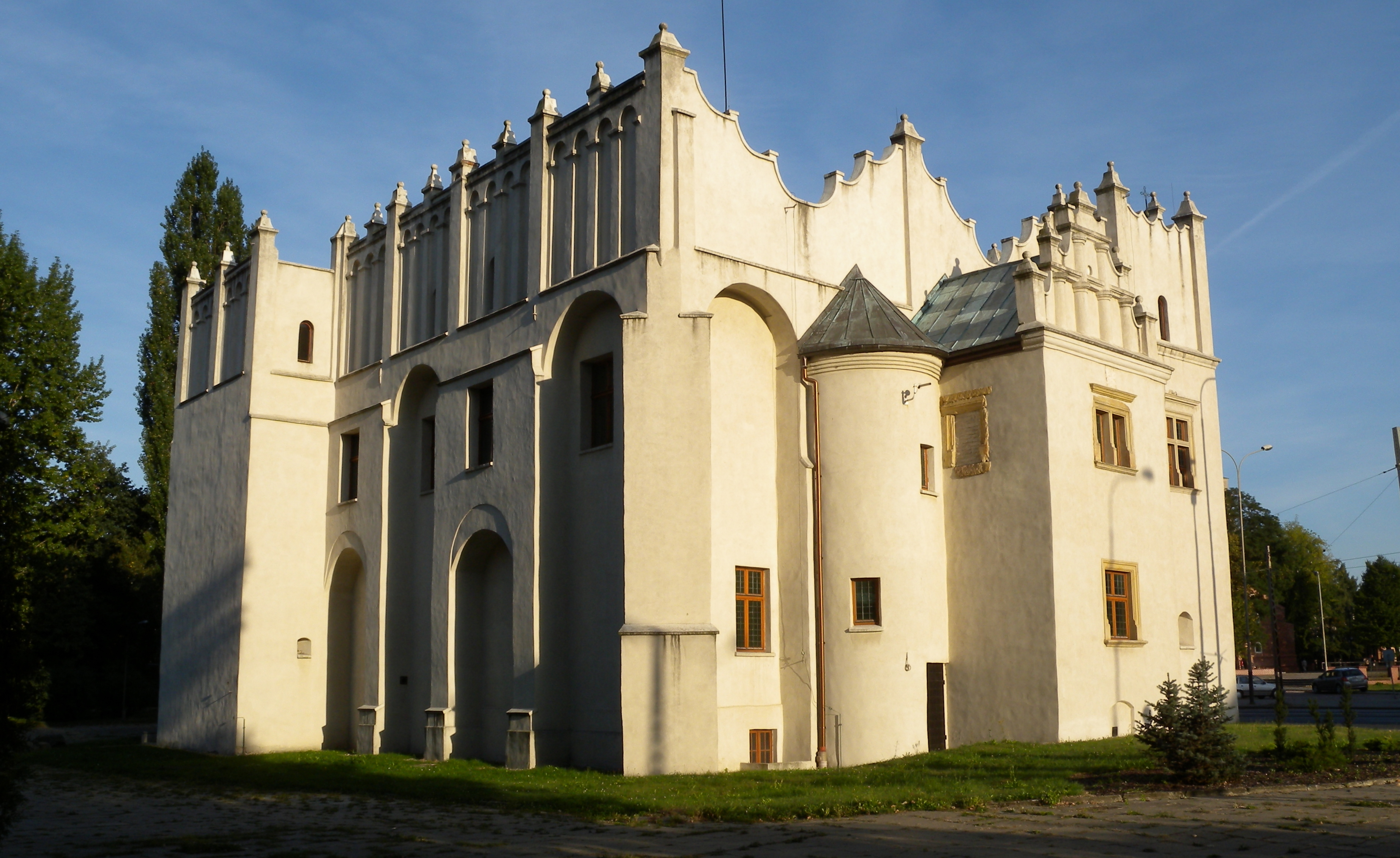 Pabianice Castle